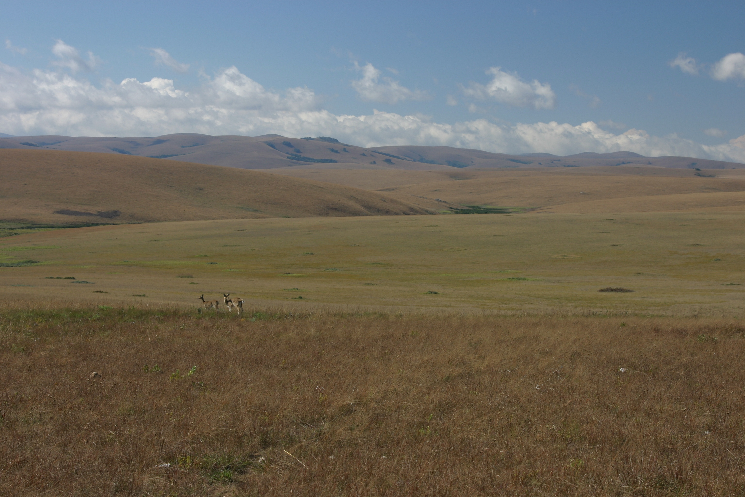 Afromontane Grassland, Nykia Plateau, Malawi